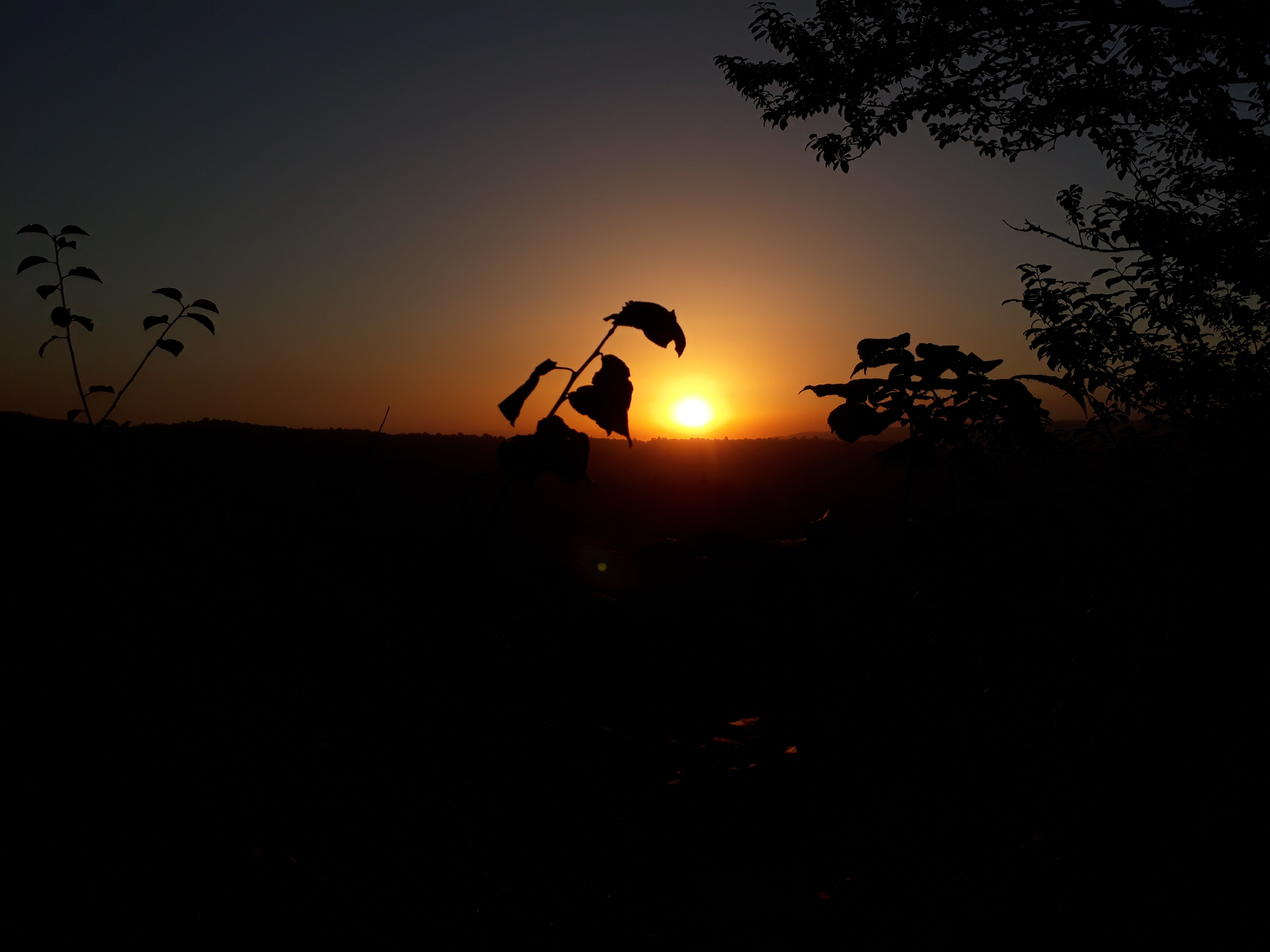 Beautiful summer sunset in shirkola